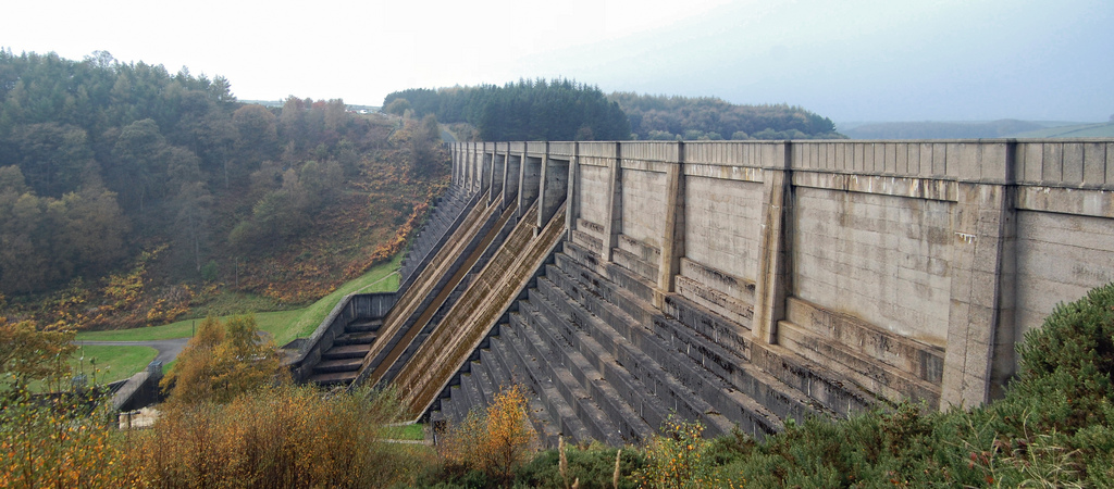 This giant concrete behemoth is the structure holding back the 1.7 million gallons of Thruscross Reservoir and ensuring that the abandoned Yorkshire village of West End village firmly submerged in its watery tomb. It is, of course, a highly necessary piece of infrastructure and is responsible for keeping the tapwater flowing across the Leeds area but its stark concrete walls are a harsh contrast to the supplanted village's beautiful old stone masonry which now lays buried or strewn along the artificial shores of Thruscross. The photograph can be found in its original resolution in this set of images.